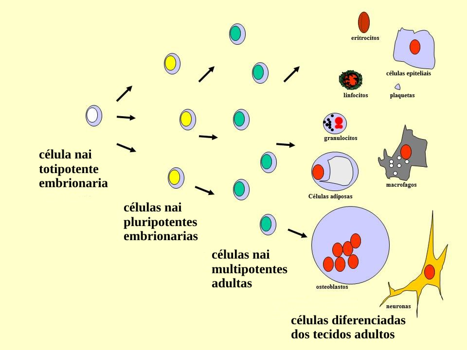 srem cells types